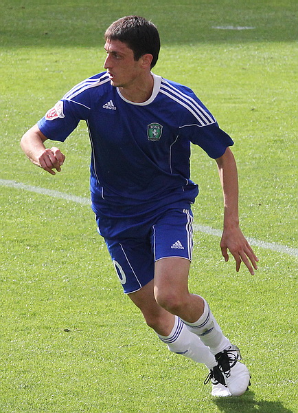 Goran Maznov